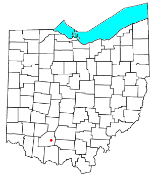 Locator map of the unincorporated community of Marshall in Highland County, Ohio, United States.